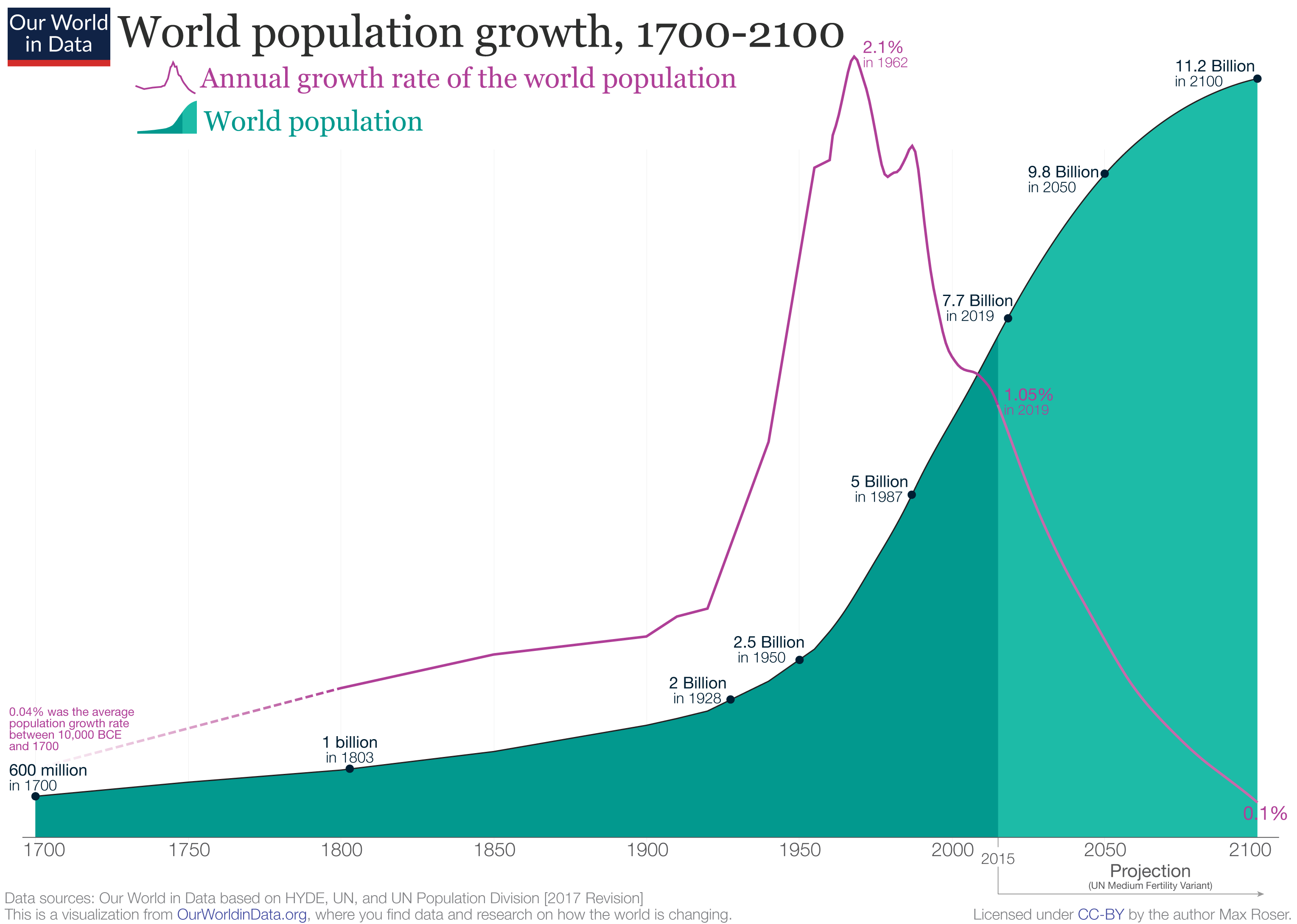 World population and world population growth Period: 1700 - 2100